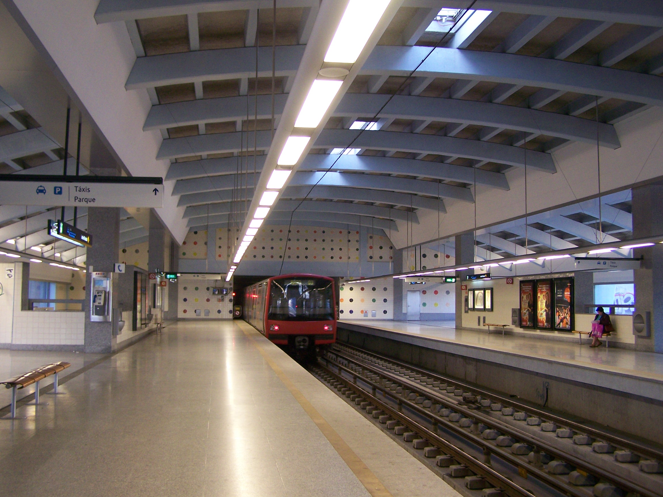 platforms of Senhor Roubado metro station (Yellow Line), Odivelas, Greater Lisbon, Portugal